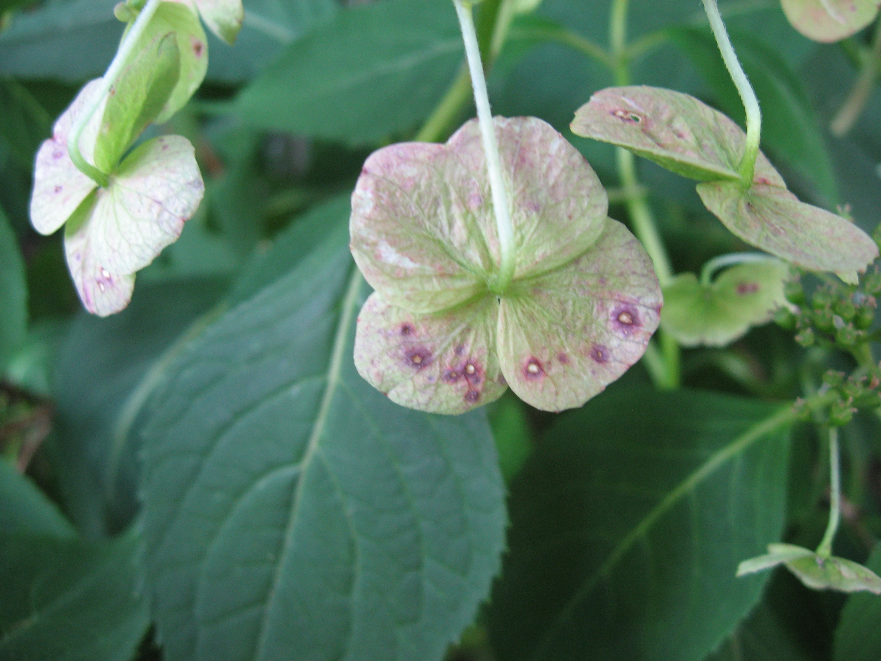 A picture of the flower of Hydrangea serrata.